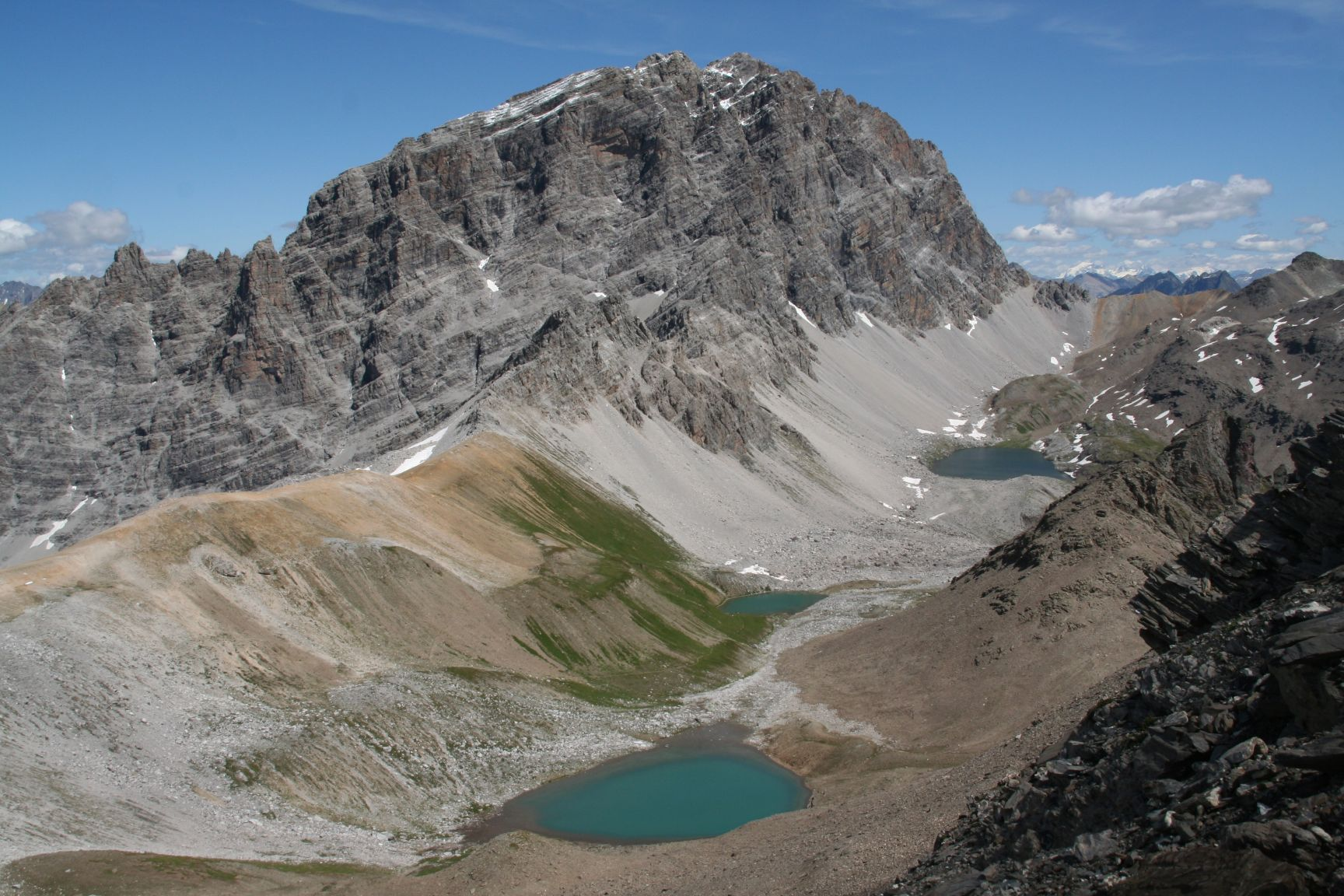 Piz Ela from Pizza Grossa, Savognin, Tinizong-Rona, Filisur, Bergün, Grisons, Switzerland